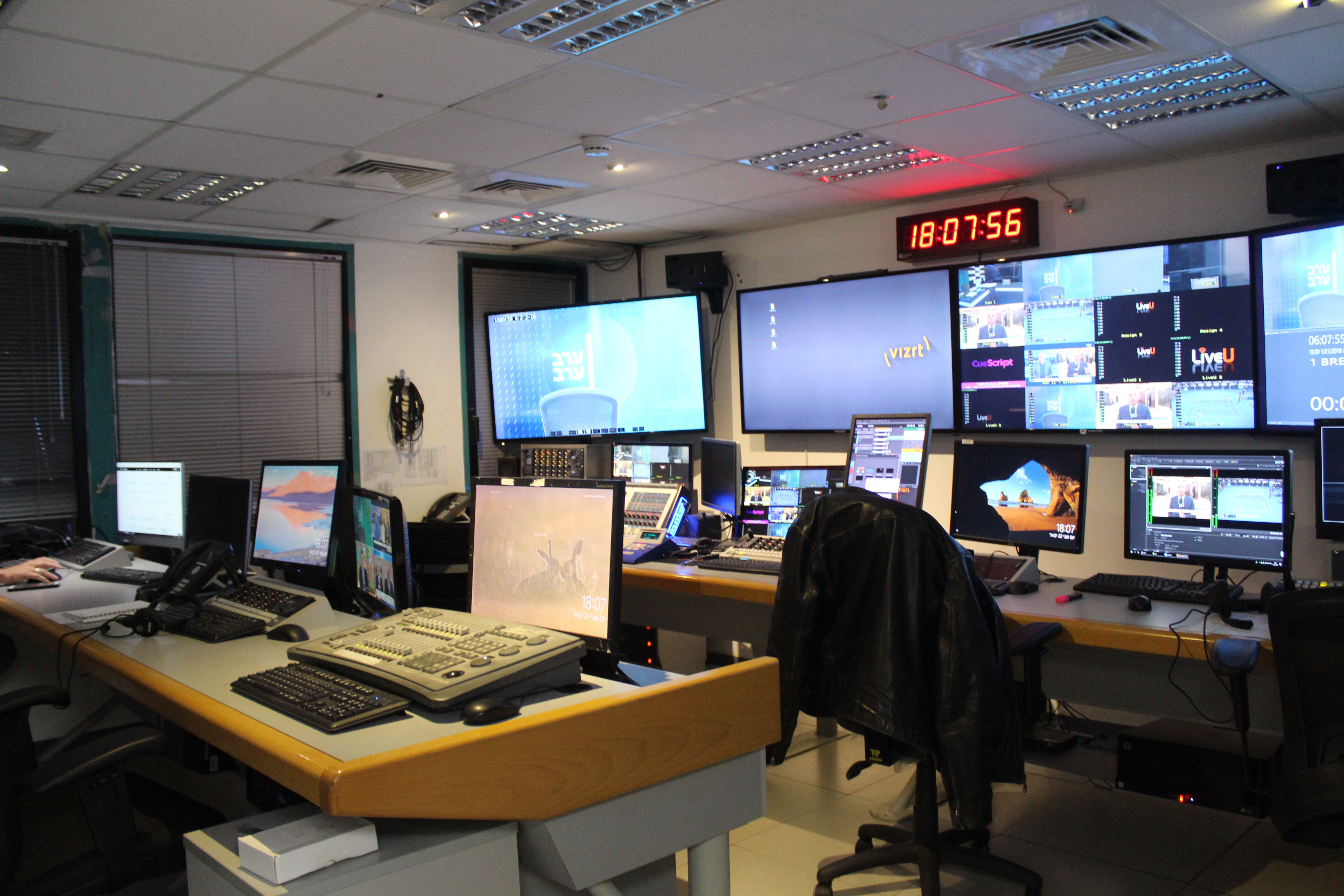 Control rooms of "Kan" radio studios, Israeli Broadcasting Corporation, Tel Aviv, Israel This image was taken as part of the Elef Millim project trip to the Israeli Public Broadcasting Corporation "Kan" offices and Control rooms, in Tel Aviv, in Israel which was held on Monday, 22 January 2018. To view all images uploaded as part of the Elef Millim Project